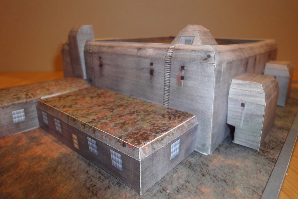 Model of Wolfsschanze